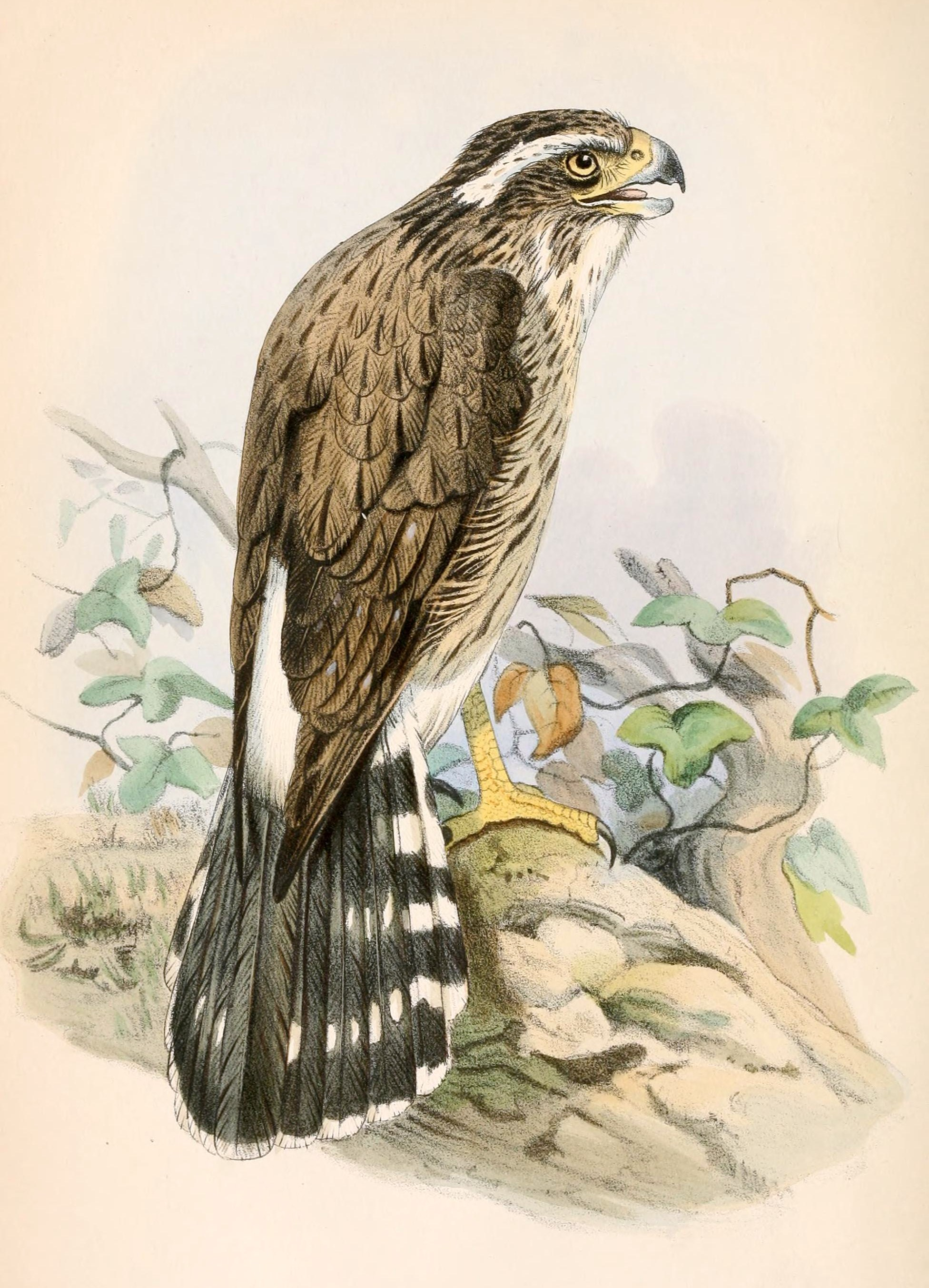 « Falco circumcinctus » = Spiziapteryx circumcincta (Spot-winged Falconet)